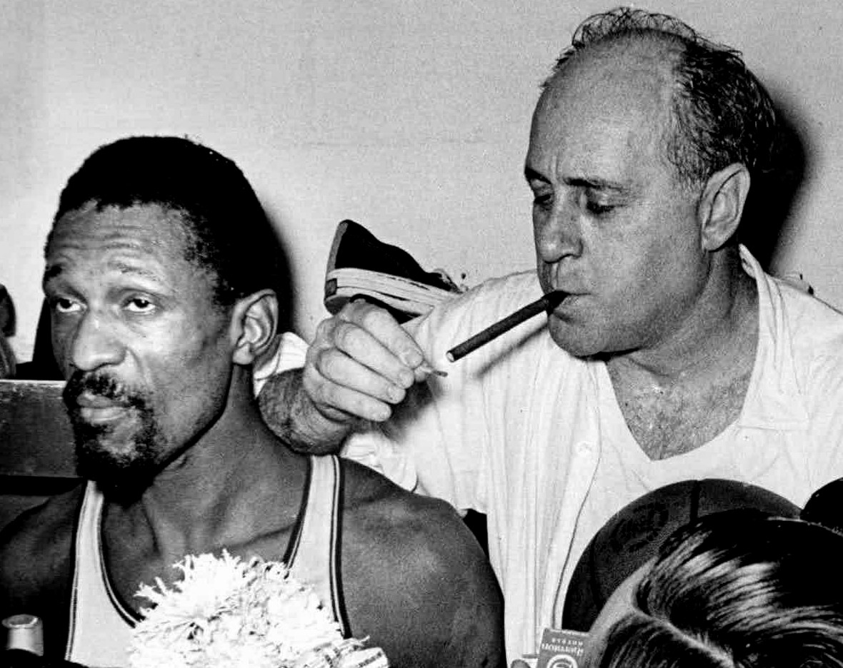 Boston Celtics center Bill Russell next to head coach Red Auerbach after winning the 1966 NBA Finals.